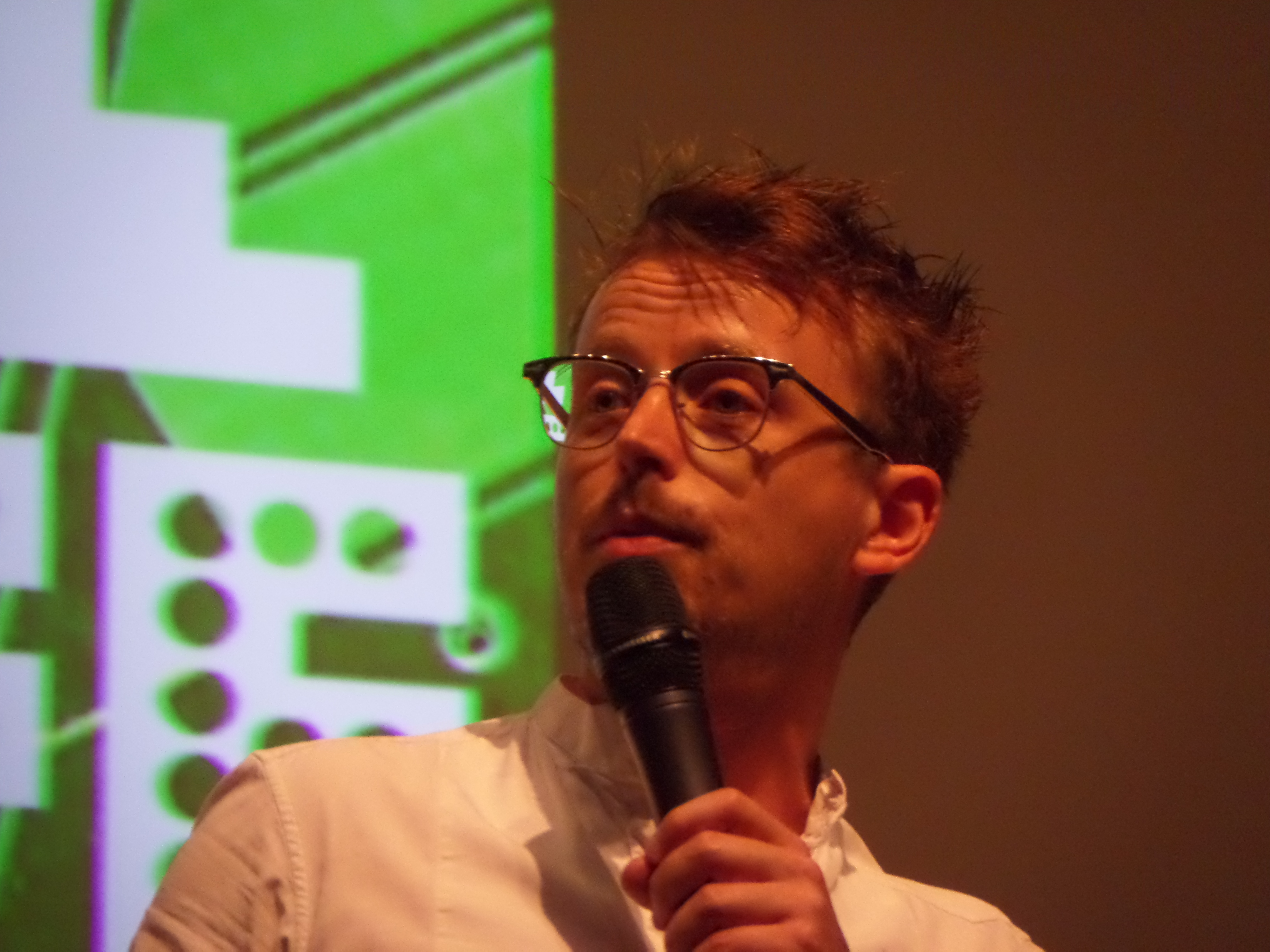 Comedian Steve Cross at Geek Showoff during Wikimania 2014, The Barbican, London, England.